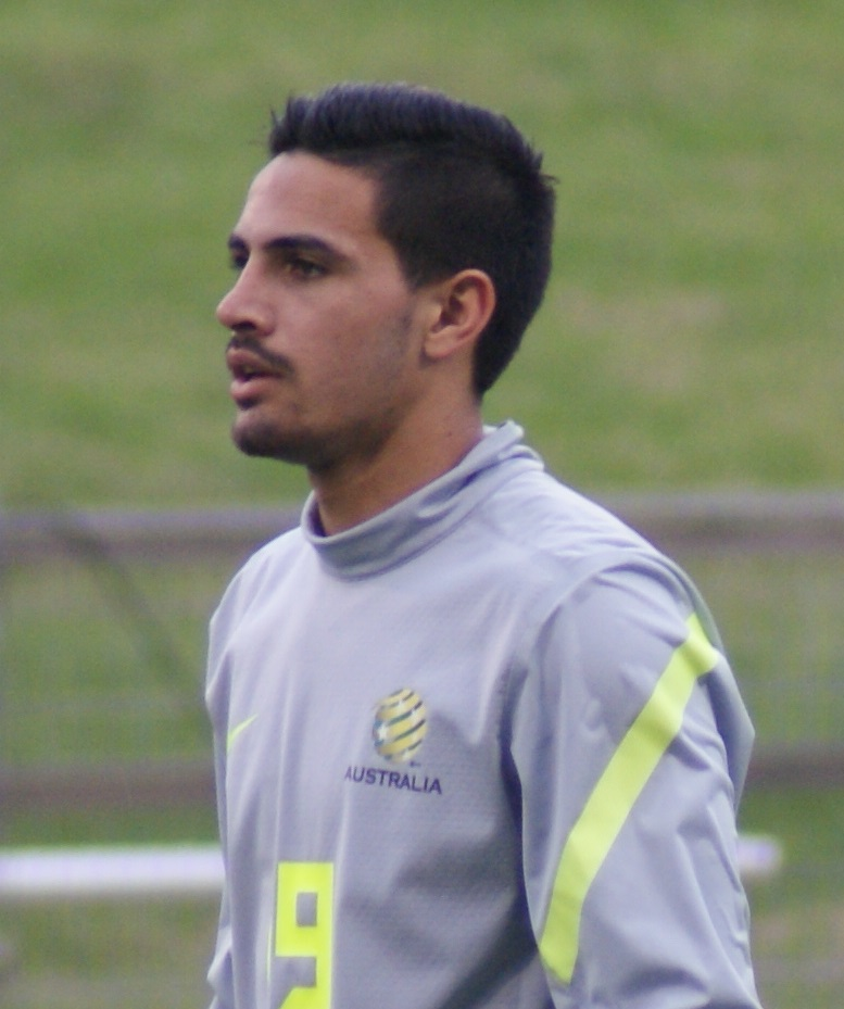 Young Socceroos vs New Zealand DateSourceFile:Ryan Edwards Young Socceroos 2013.jpg derivative work: StAnselm AuthorPete Nowakowski This is a retouched picture, which means that it has been digitally altered from its original version. Modifications: cropped. The original can be viewed here: Ryan Edwards Young Socceroos 2013.jpg. Modifications made by StAnselm.